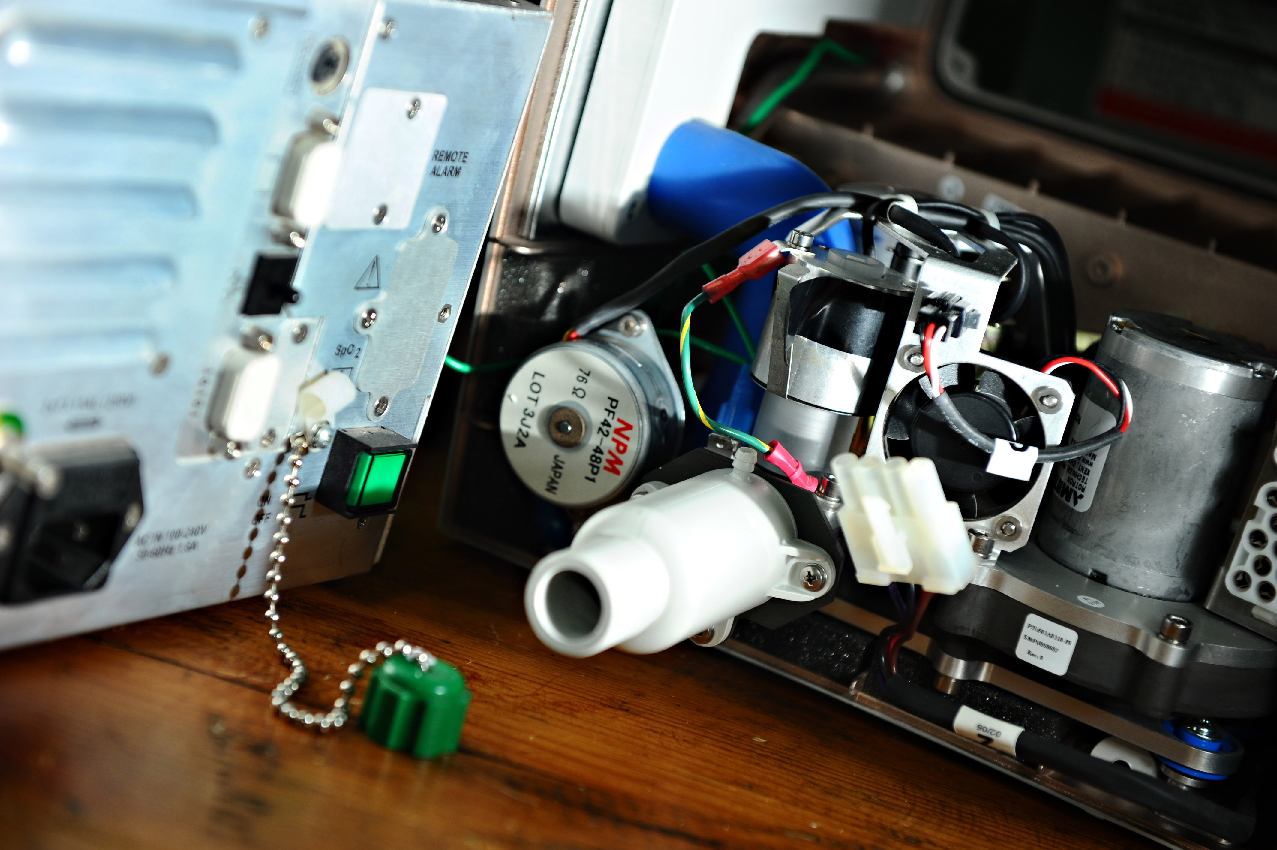 100519-F-9200D-003 MAZAR-E-SHARIF, Afghanistan – Teaser photo – internals of a ventilator, a device used to breathe for patients. (Photo by Master Sgt. Christopher DeWitt, USAF)